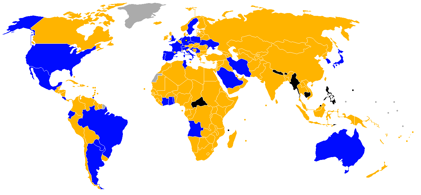 Status of countries with respect to 2006 FIFA World Cup